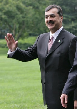 Yousaf Raza Gillani during his visit to the White House in 2008.